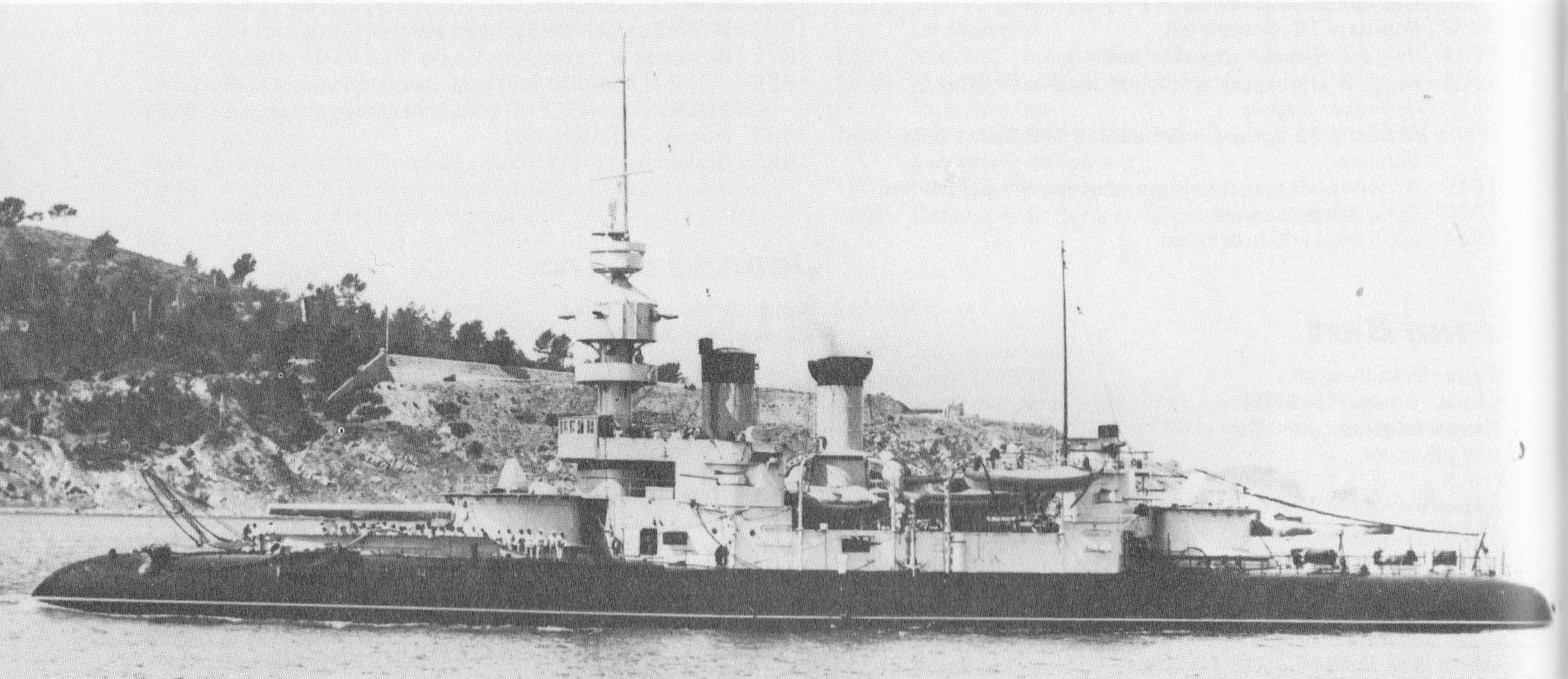 French Coastal Defence Ship Jemmapes.